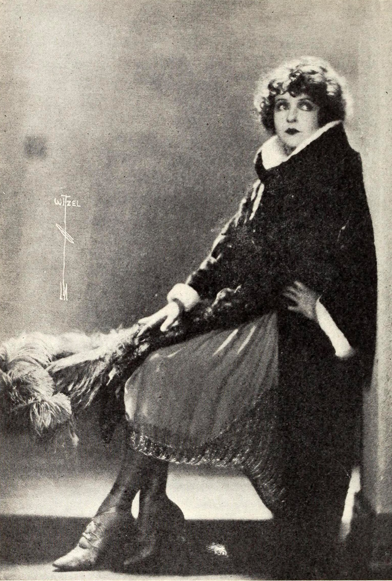 Promotional photo